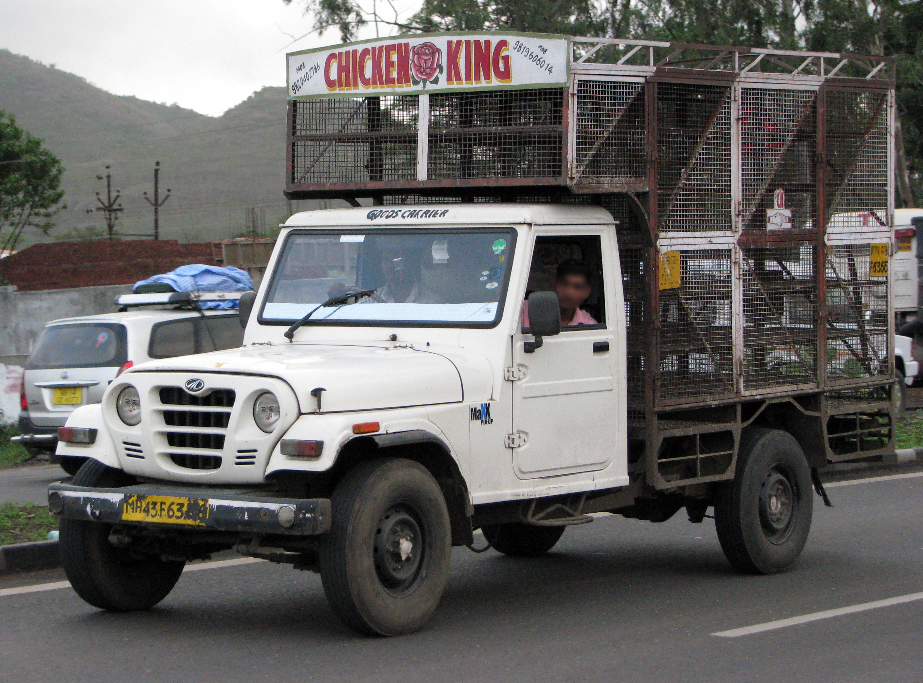 "... but no chickens." A Mahindra MaXX Pik Up on the Mumbai Pune Highway, intended for live poultry transport apparently.